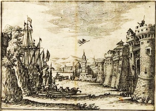 Stage set for Act 1, Scene i, for the premiere performance of Cesti's opera L'Argia, Innsbruck, Austria, 4 November 1655